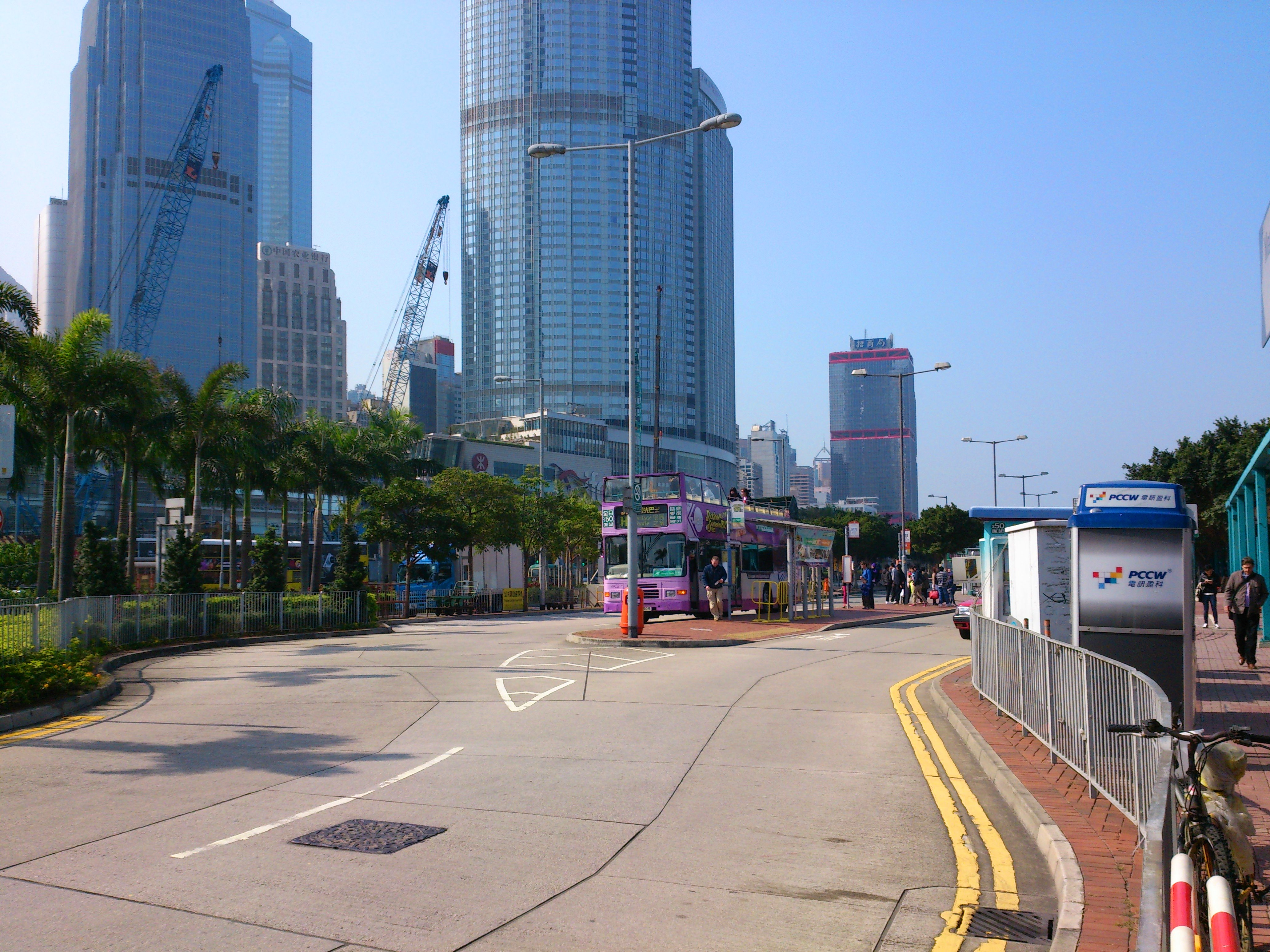 Man Kwong Street near Central Star Ferry Pier